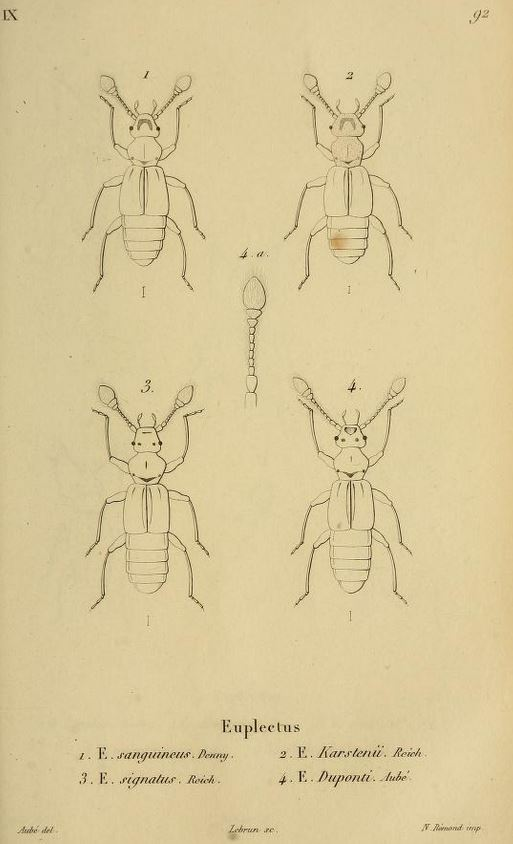 Euplectus sanguineus Fig 1 Euplectus karstenii Fig 2 Euplectus signatus Fig 3 Euplectus duponti fig 4